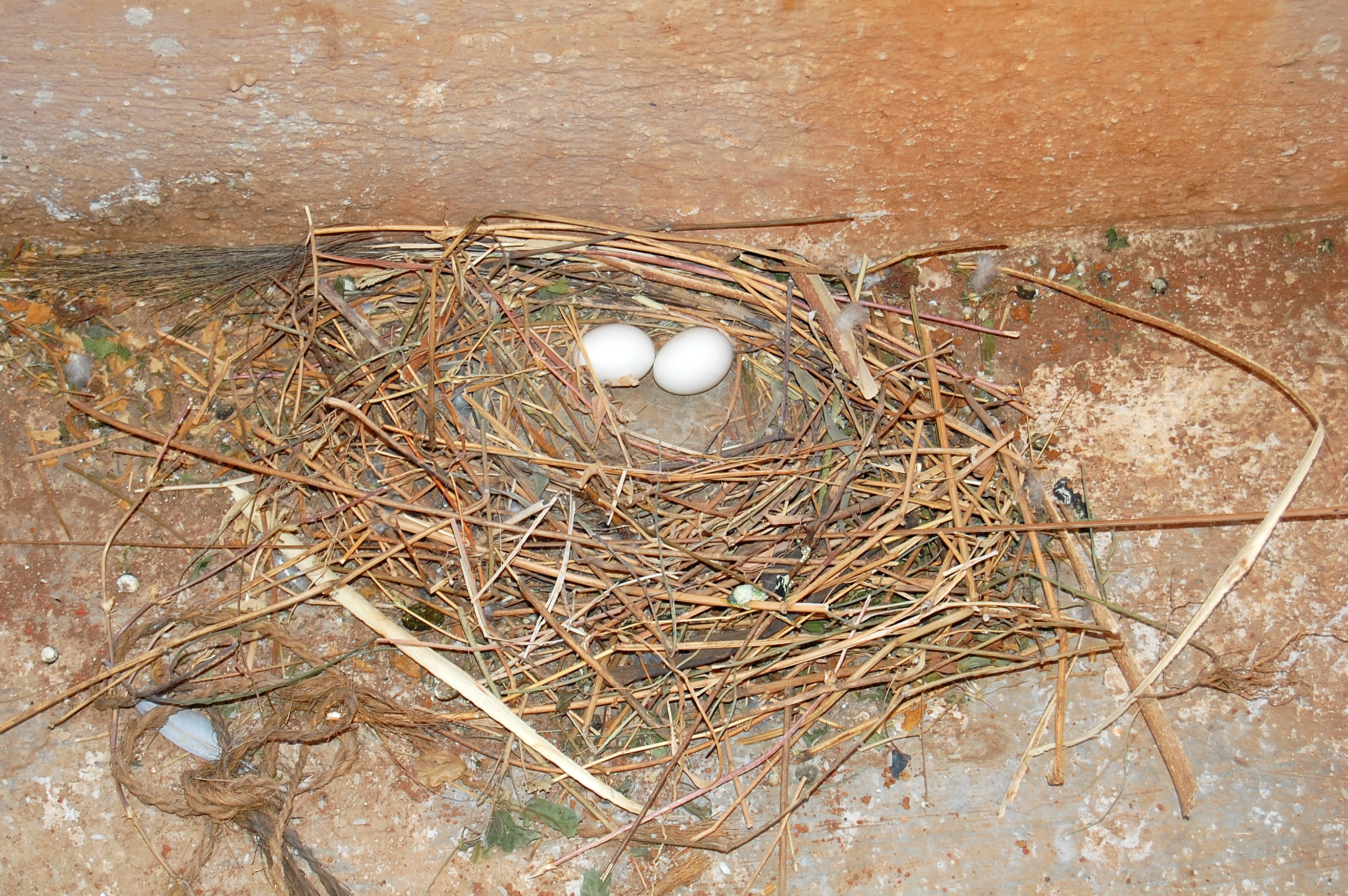 A pigeon nest with 2 eggs in it. Picture taken at Mumbai, Maharashtra, India.